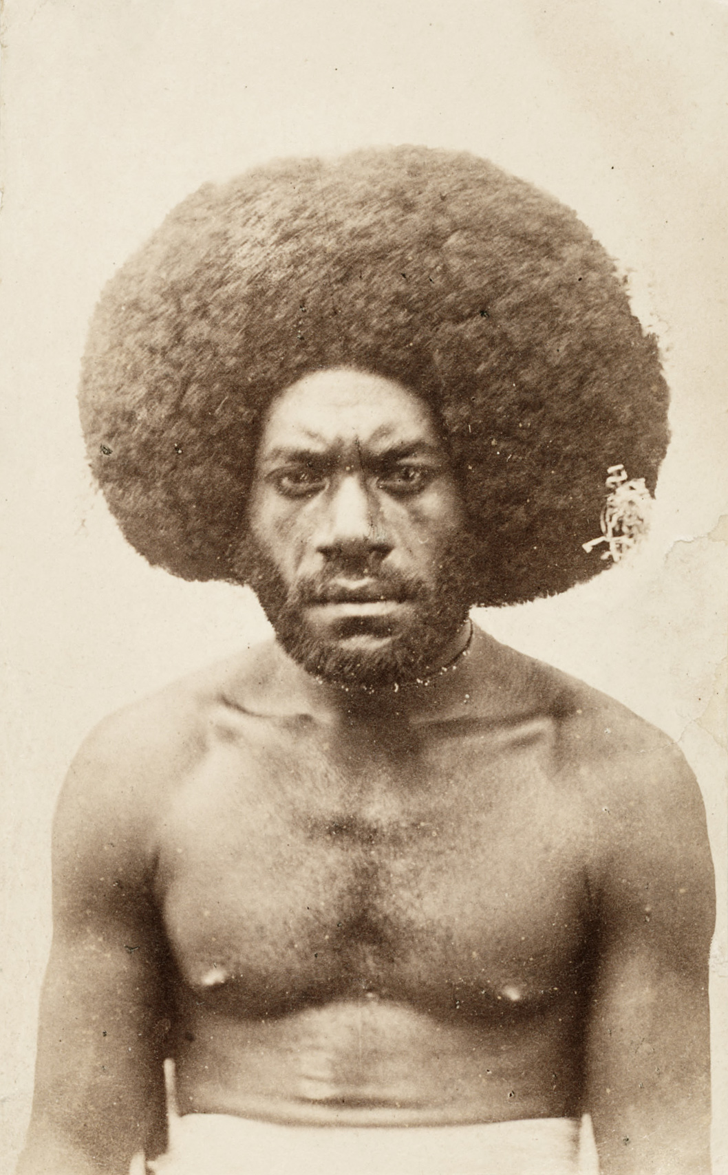 Photograph of Tui Namosi, Kai Colo.